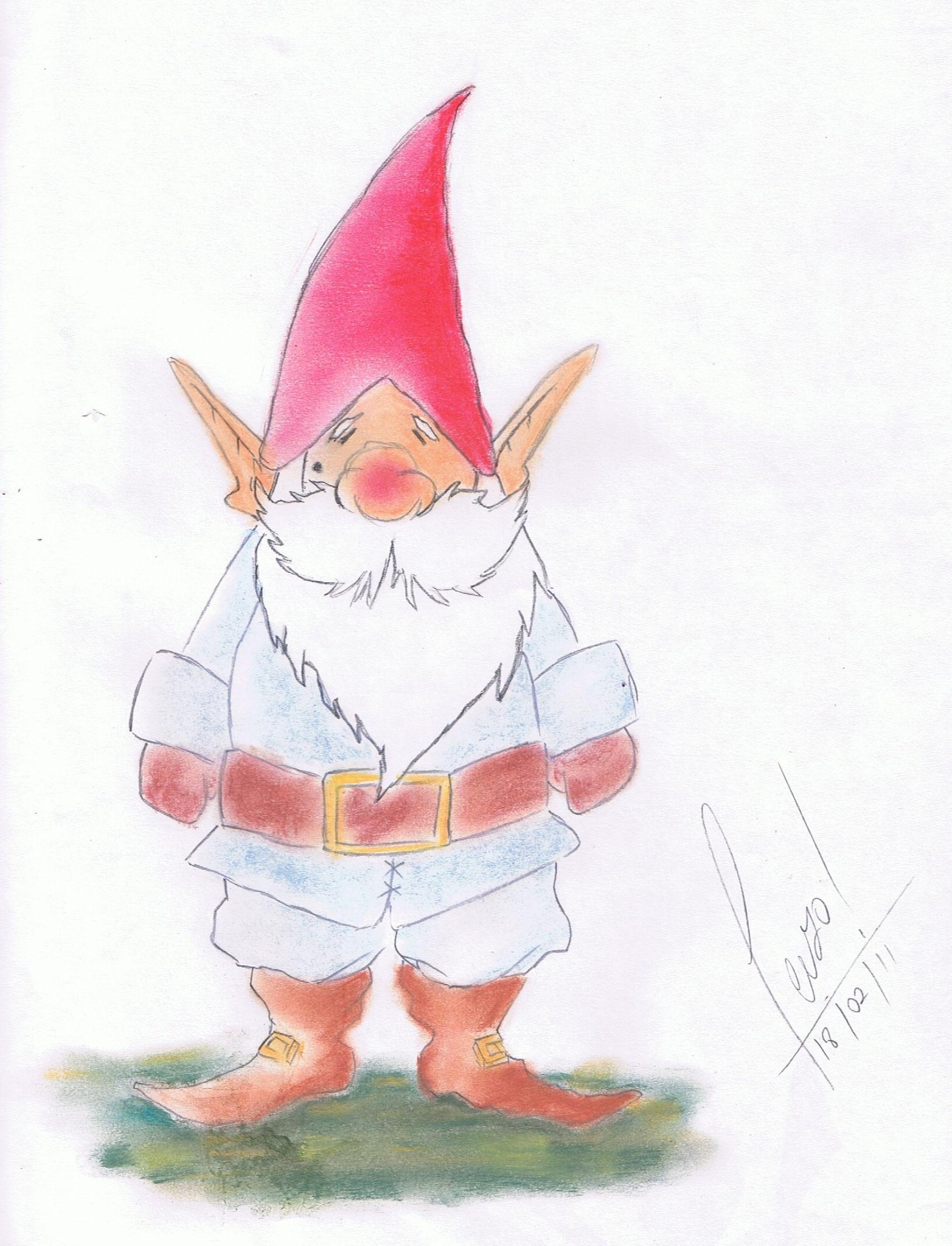 Gnome.